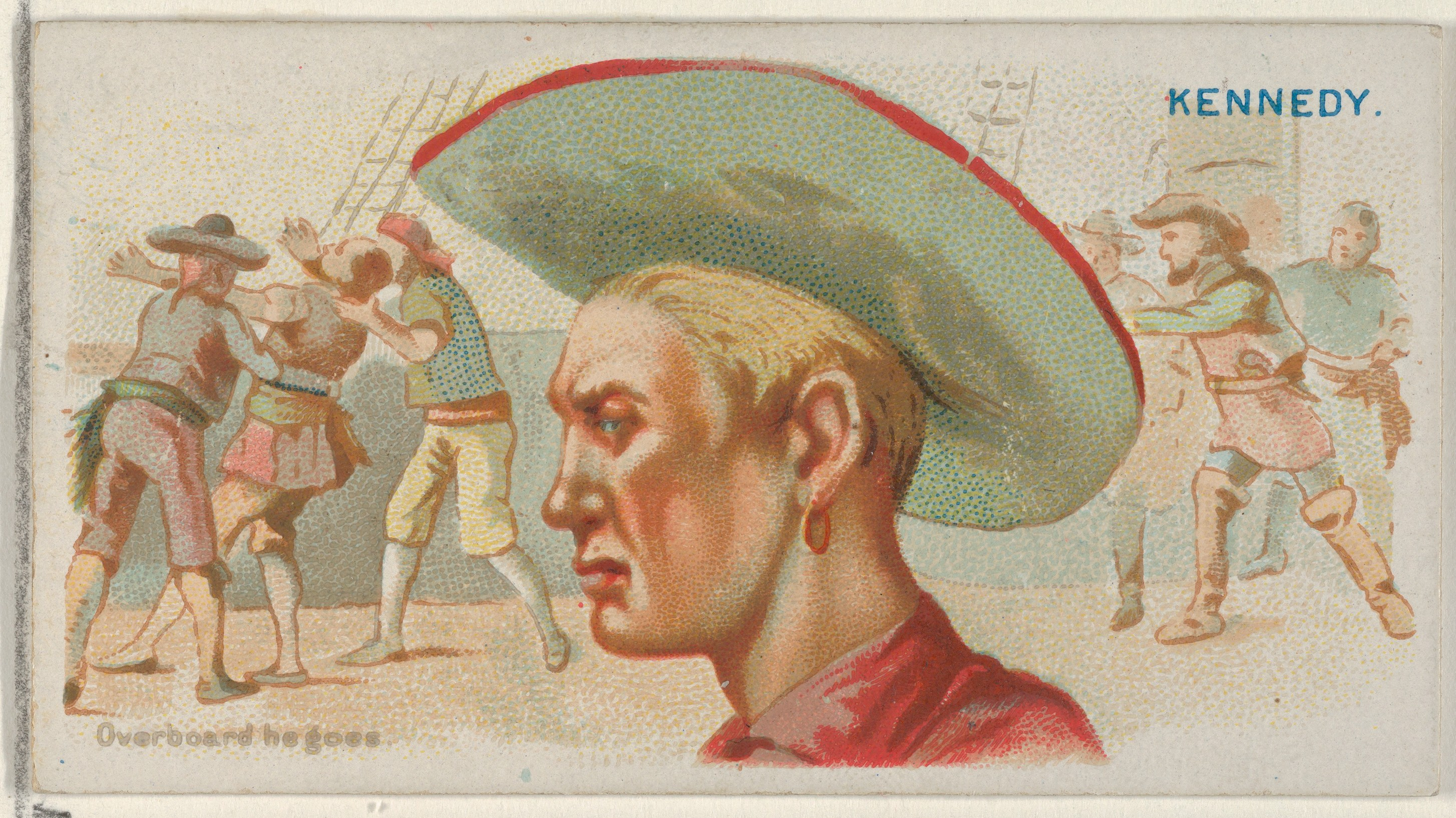 Print; Prints